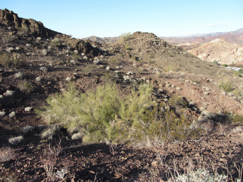 Parkinsonia aculeata photographed in Buckskin Mountain State Park, Arizona. The (dry, small) grayish shrubs are Encelia, probably Encelia farinosa.